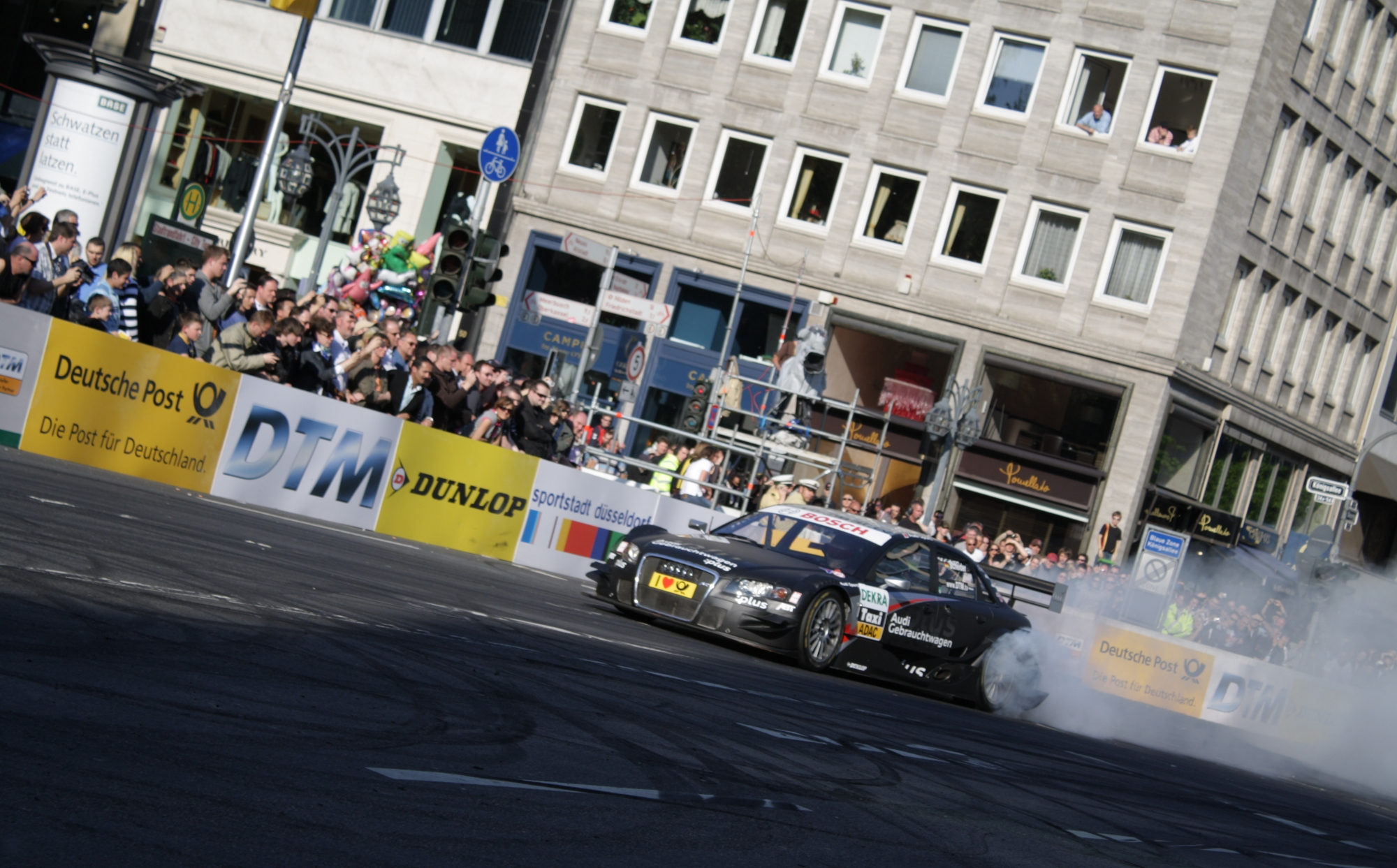 DTM presentation in Düsseldorf (Germany)